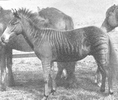 A zorse. 1899 photograph of a zebra-horse hybrid, or zorse, from J.C. Ewart's The Penycuik Experiments. "Romulus: one year old."